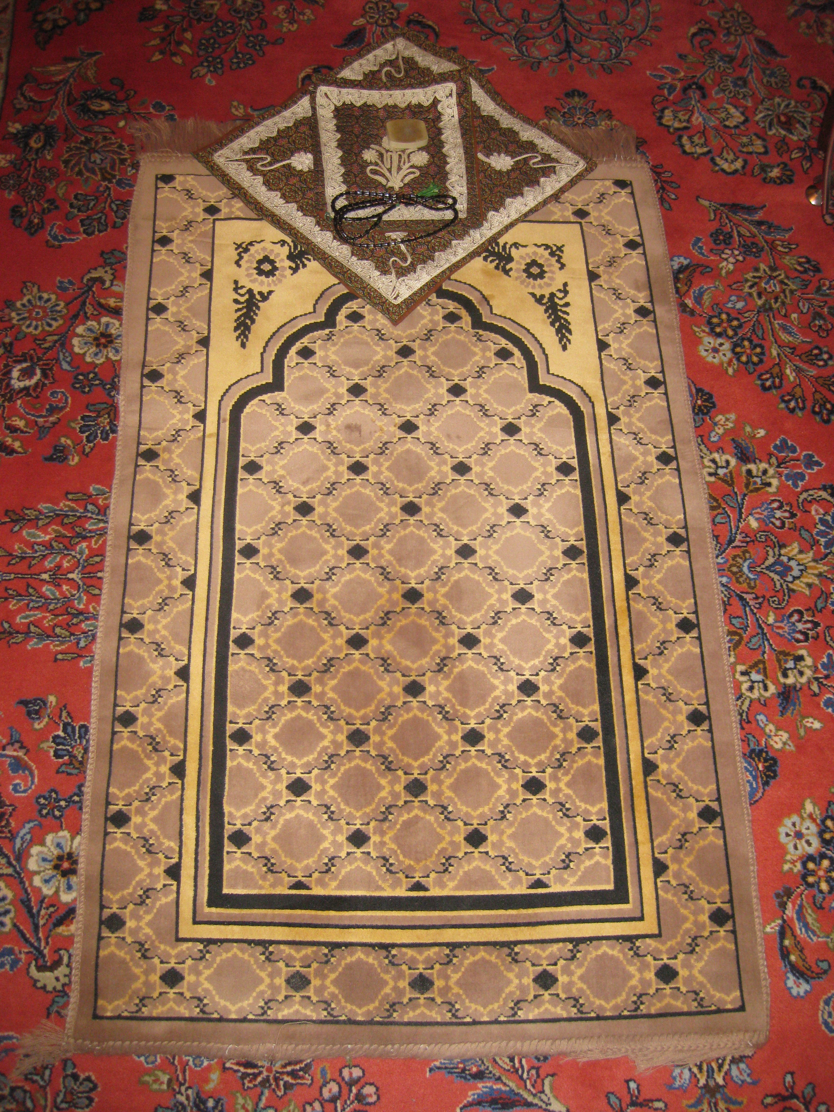 Janamz, a cloth on which Muslims pray